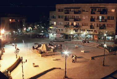 Center of the town of Radoviš, R.o.Macedonia Centrum miasta Radoviš, Macedonia Центар во Радовиш, Македонија